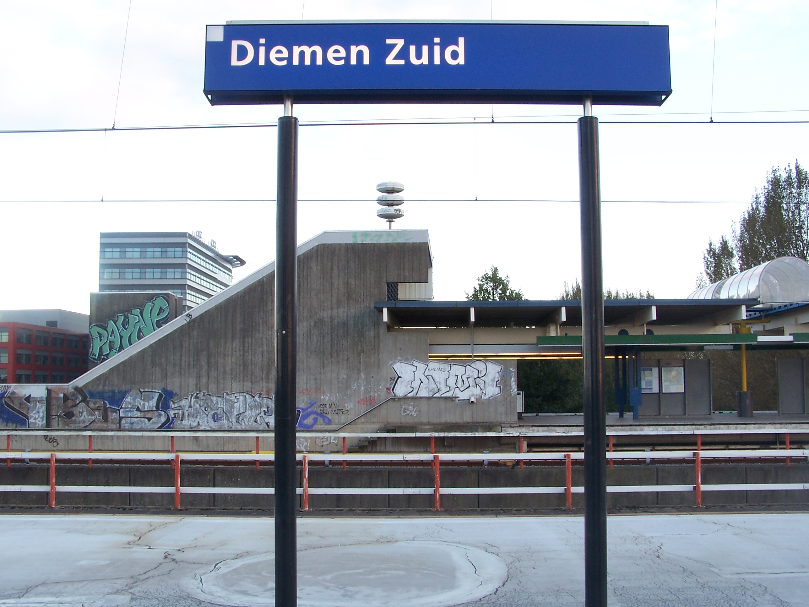 Station Diemen-Zuid, a train station in Diemen, a suburb of Amsterdam in the Netherlands. Author:Mig de Jong